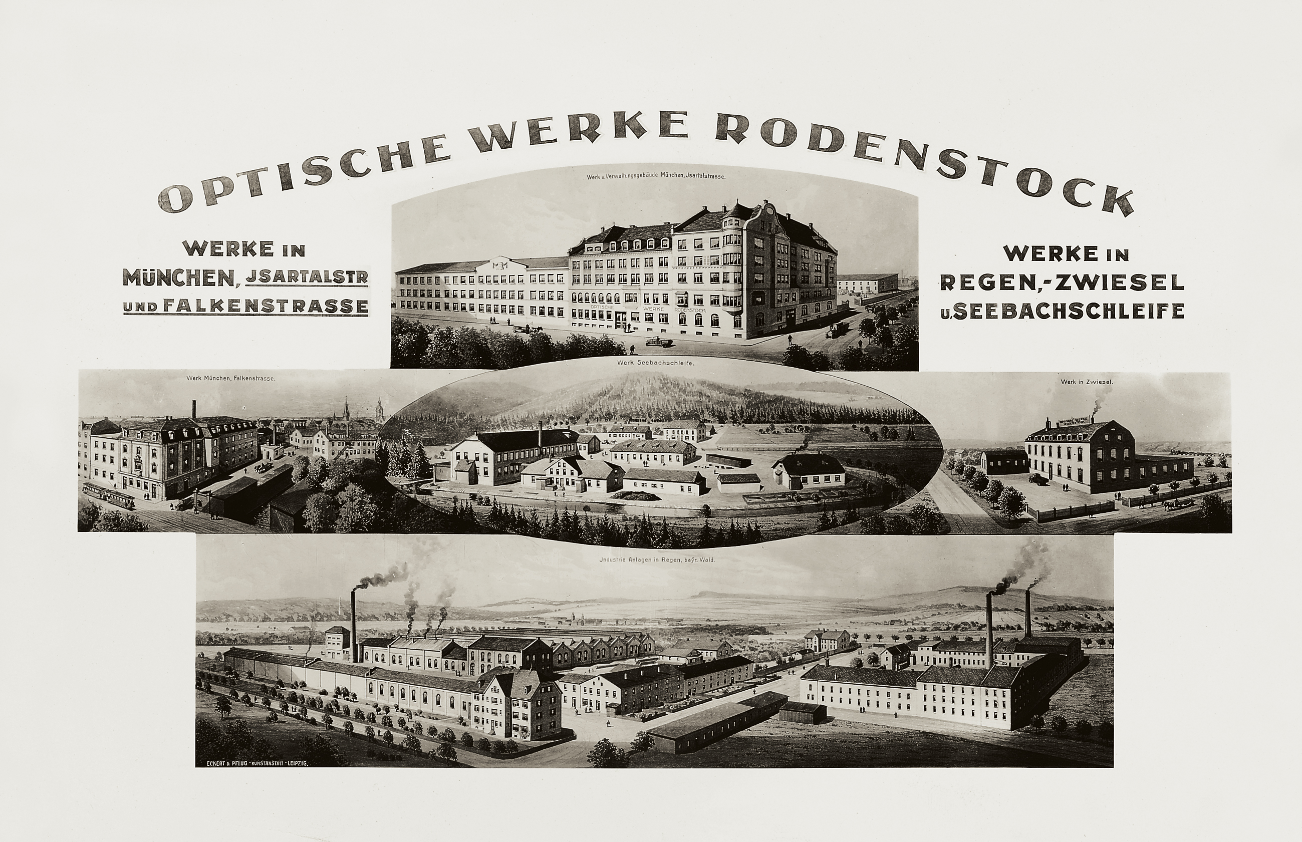 Optical Factory Rodenstock, about 1928